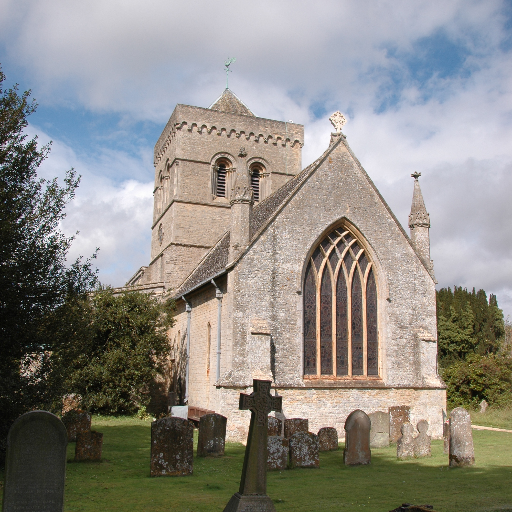 Church of England parish church of St Mary the Virgin, Kirtlington, Oxfordshire, from east-southeast